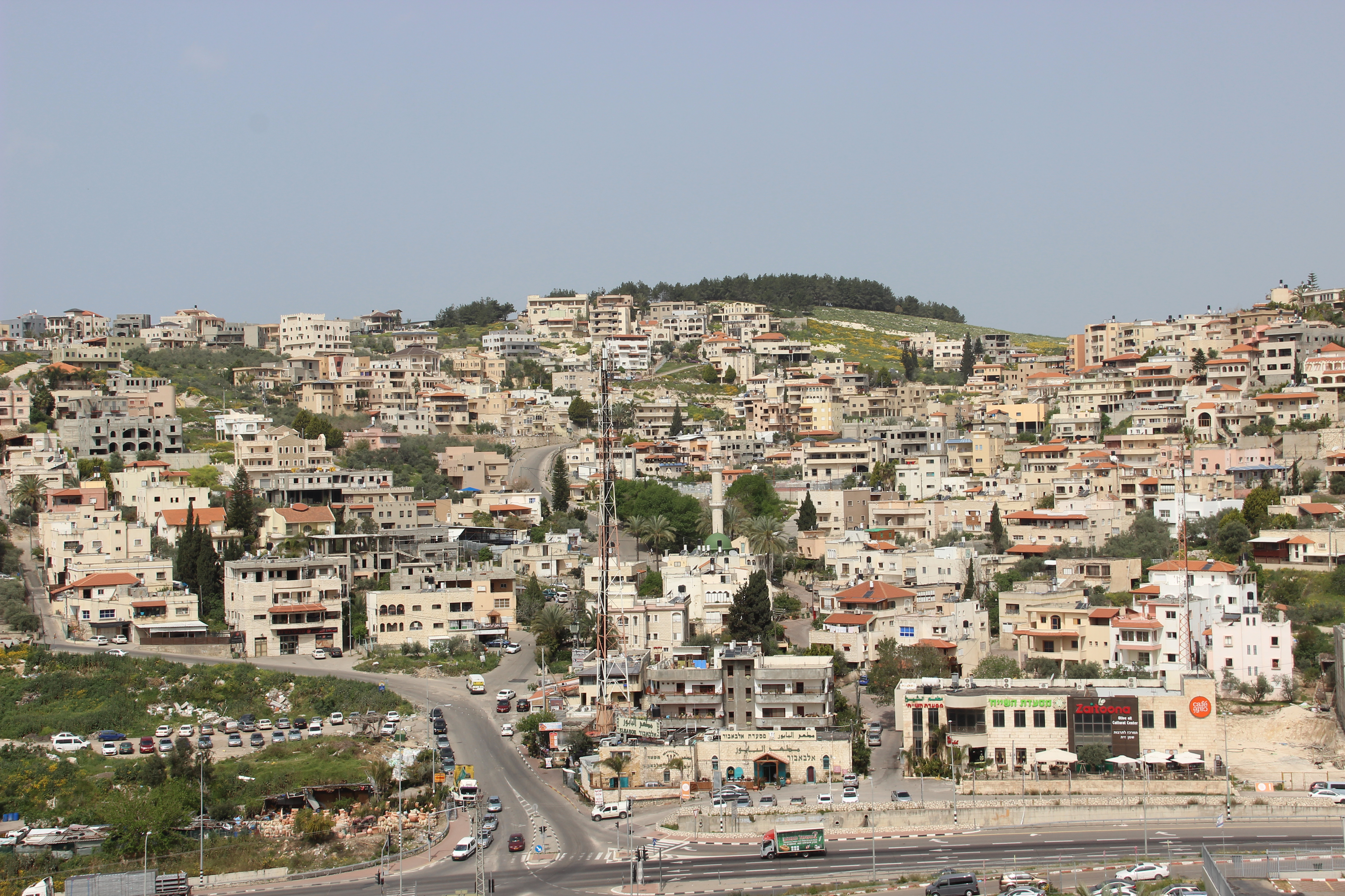 Ein Ibrahim, Umm al-Fahm